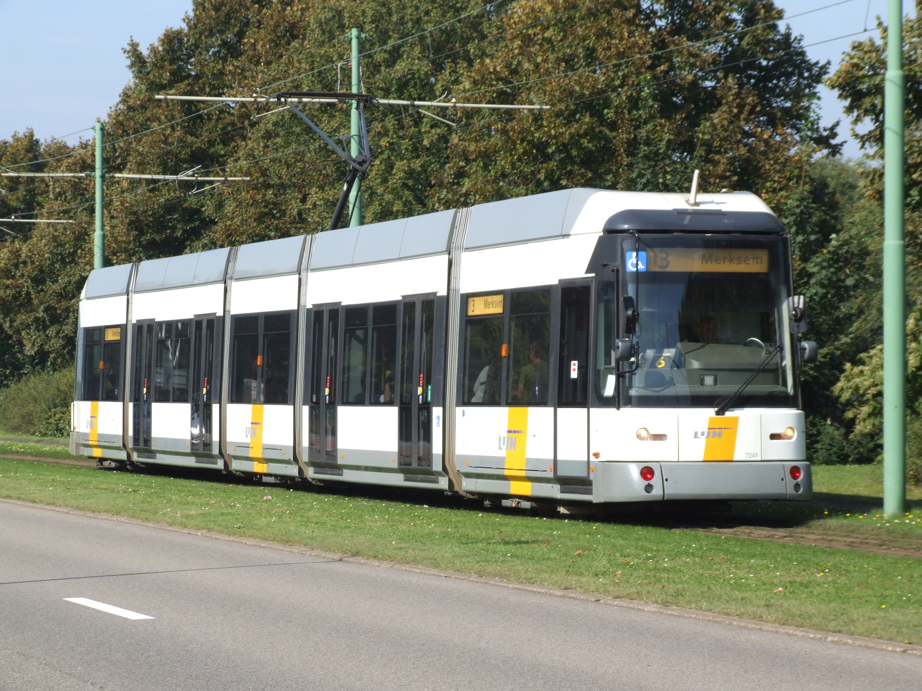 Tram line 3 car 7241 at Antwerp